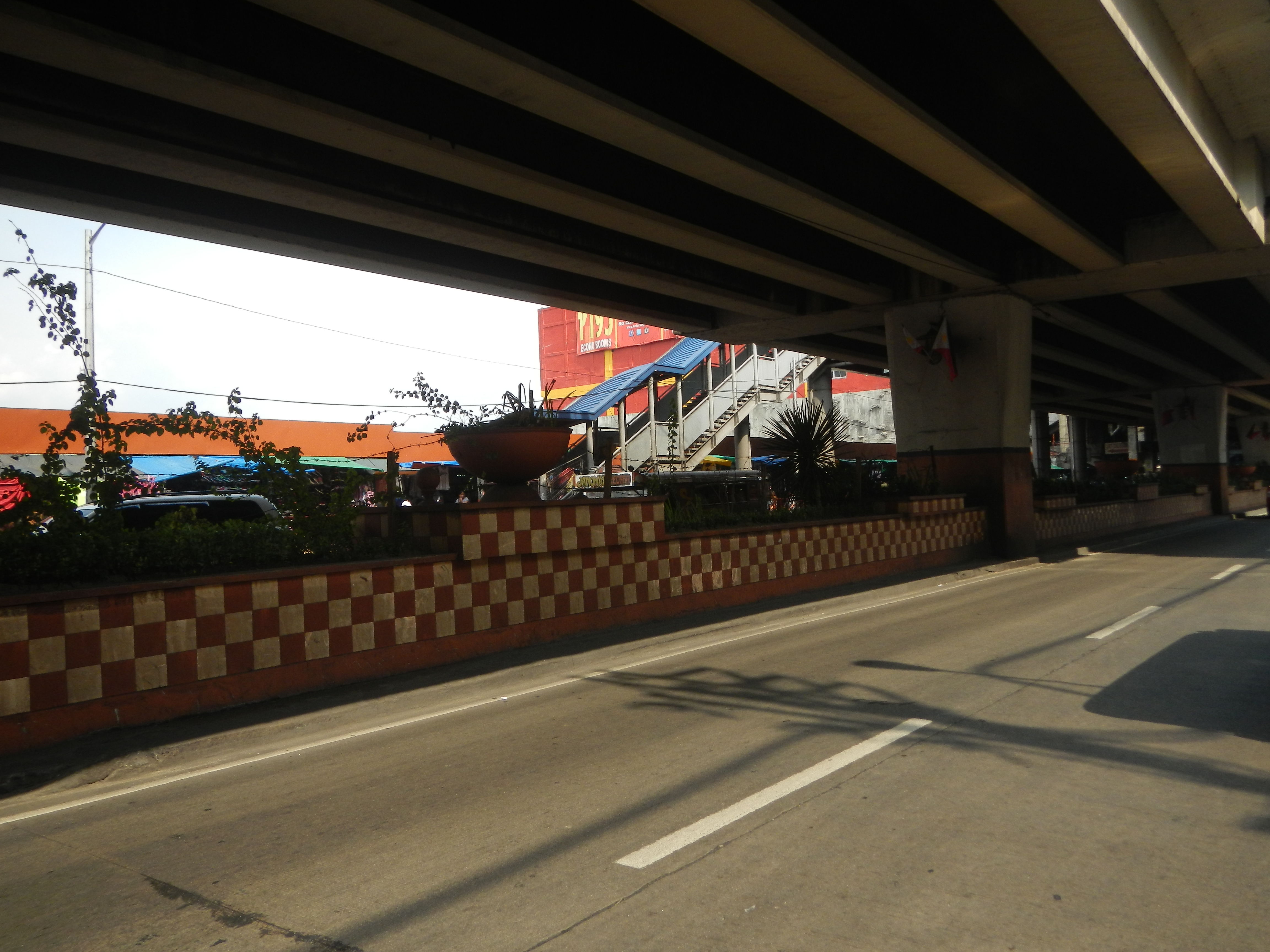 Rizal Avenue Extension List of barangays of Metro Manila Legislative districts of Caloocan District 2, Barangays of Caloocan City E. De Jesus Street into Barangays 88, 89 and 90, Zone 8, District II, Barangays 86 and 87, Zone 8, District II (in front of Barangay 84, Morning Breeze Subdivision, District I, beside Barangays 82, 83 and 85, Zone 8, District I, B. Serrano Street corner EDSA Street, Caloocan City (from and along Epifanio de los Santos Avenue (EDSA, Balintawak-Monumento, Caloocan City section) of EDSA (road) Highway 54); Note: Judge Florentino Floro, the owner, to repeat, Donor Florentino Floro of all these photos hereby donate gratuitously, freely and unconditionally all these photos to and for Wikimedia Commons, exclusively, for public use of the public domain, and again without any condition whatsoever).